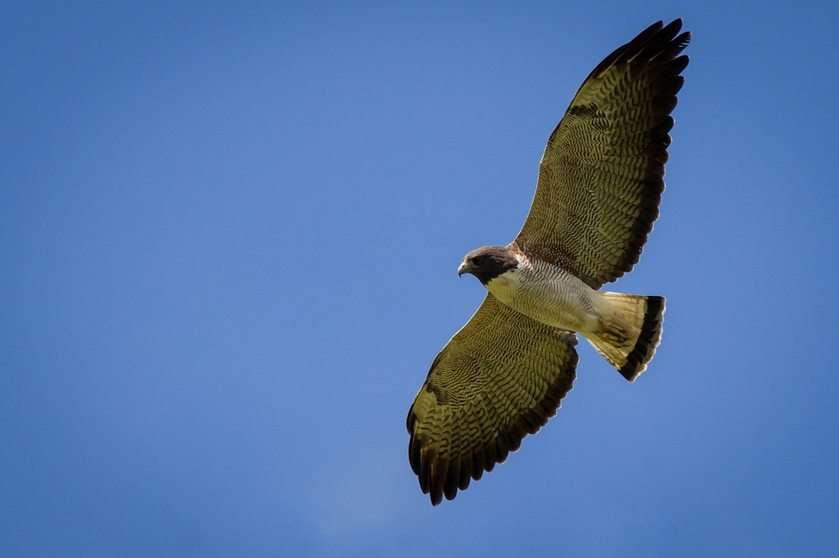 A White-tailed Hawk Buteo albicaudatus in Gravatá, Pernambuco, Brazil.